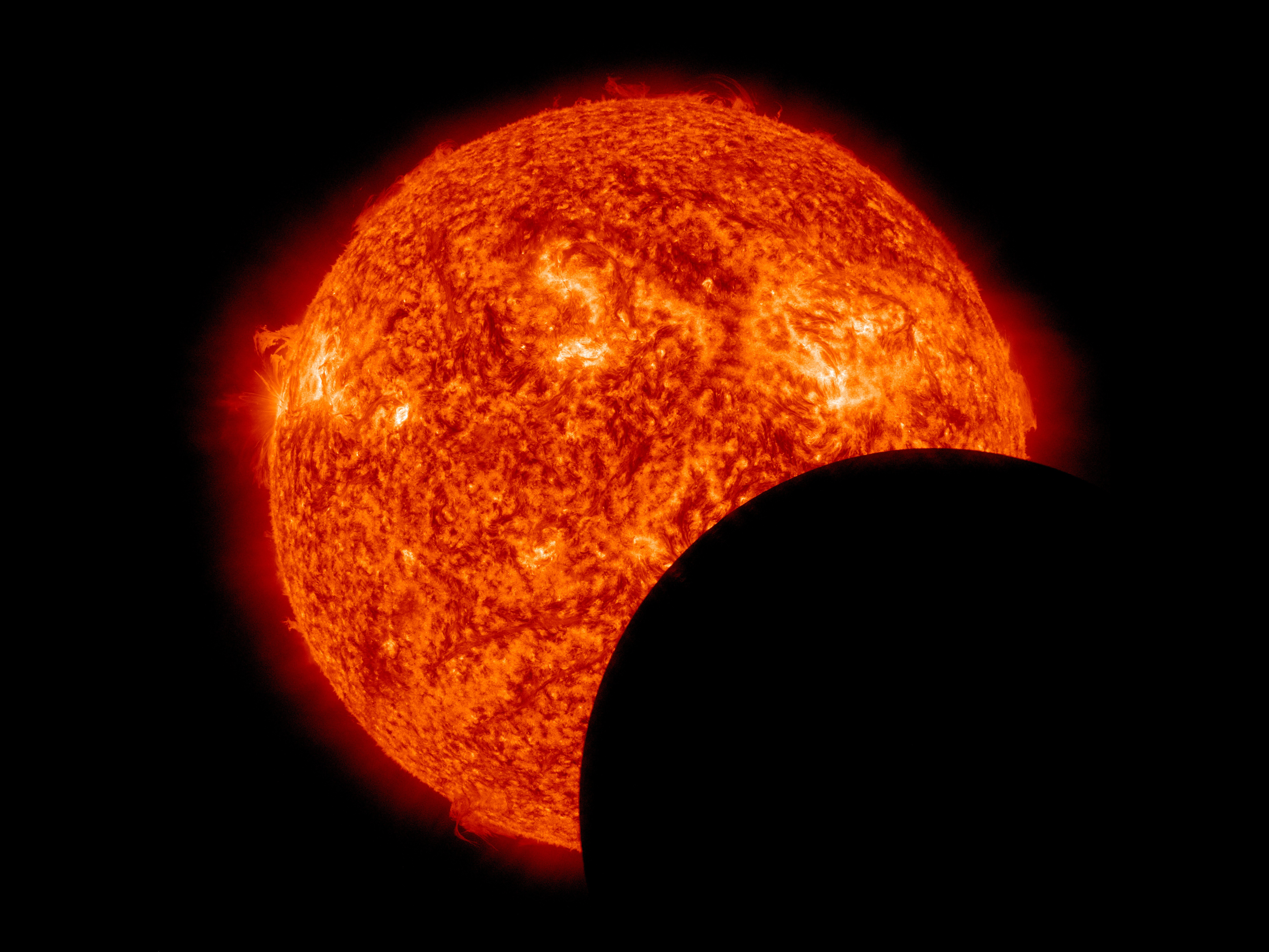 This image from NASA's Solar Dynamics Observatory on Mar. 11, 2013, at 8:00 a.m. EDT, shows the moon crossing in front of the sun.